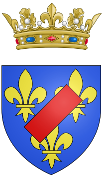 Coat of arms of Louis Auguste de Bourbon, Légitimé de France, Duke of Maine